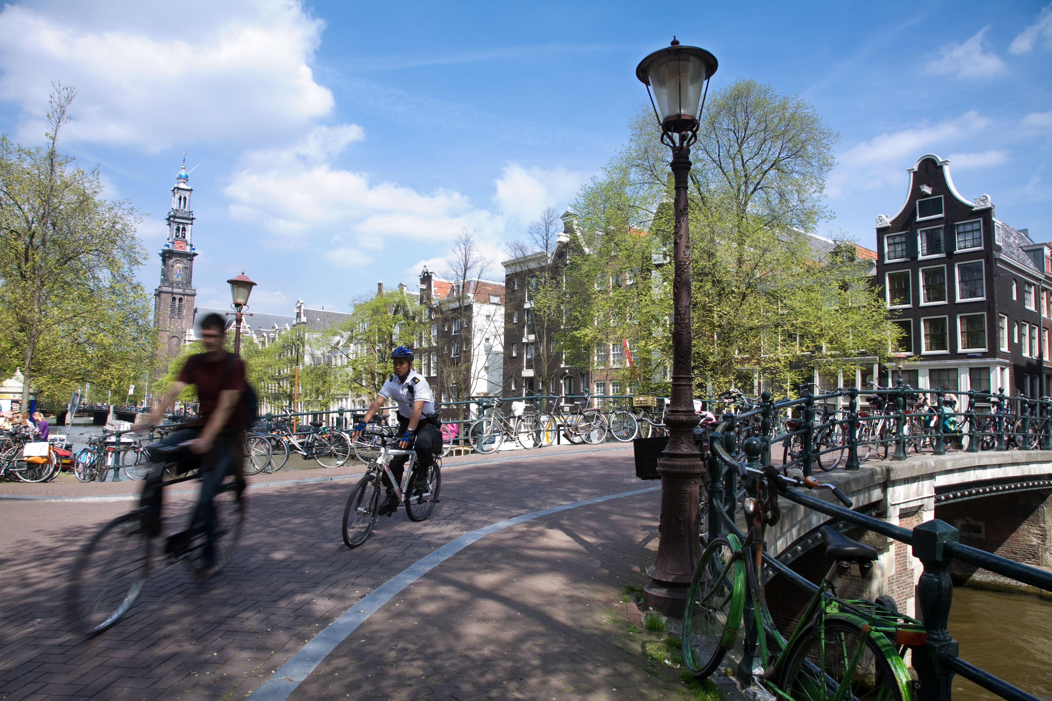 Street scene in an Amsterdam Channel. The Netherlands, Westerkerk in the background